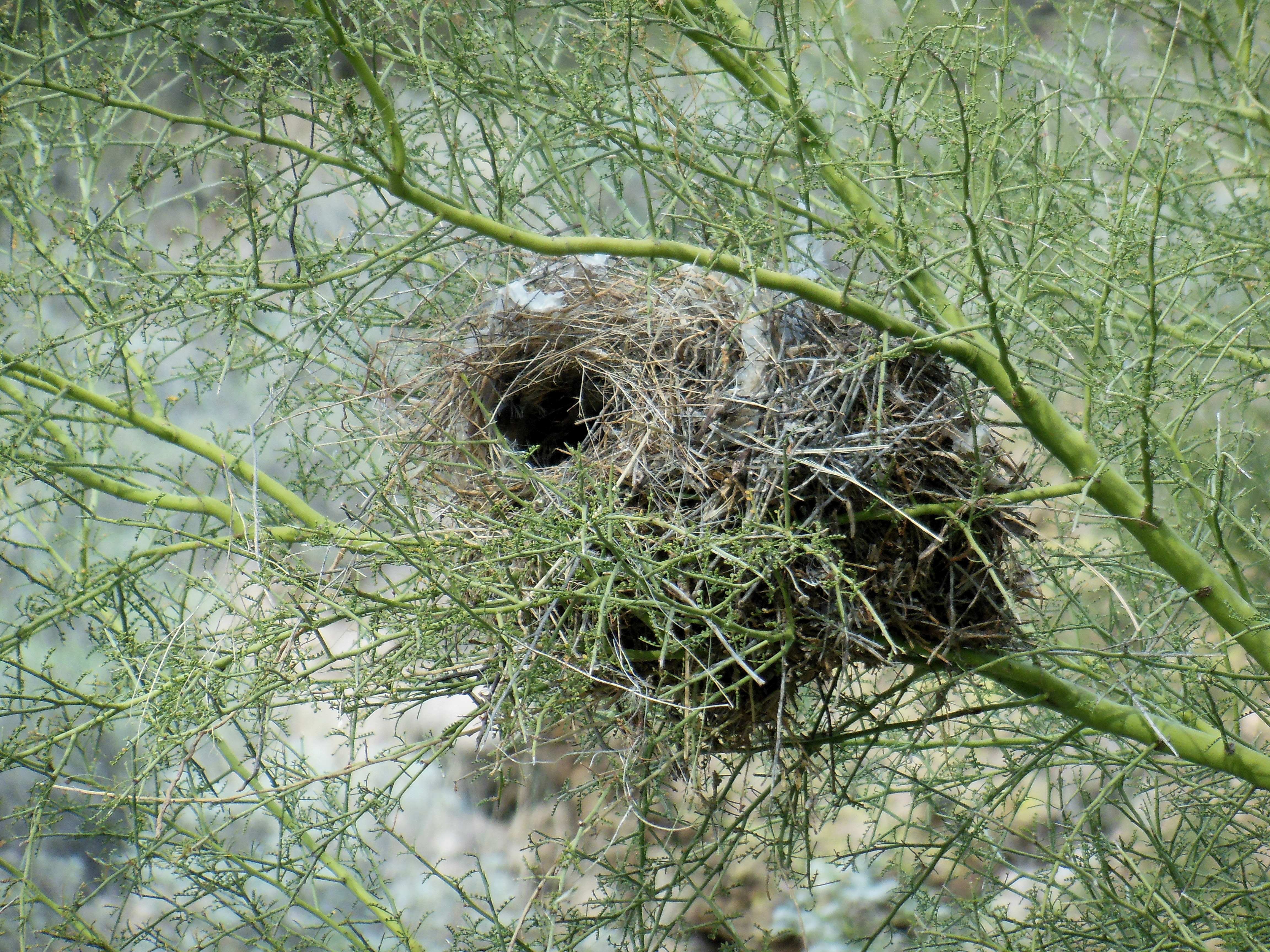 A cactus wren nest situated in a Palo Verde tree with conspicuous entrance.